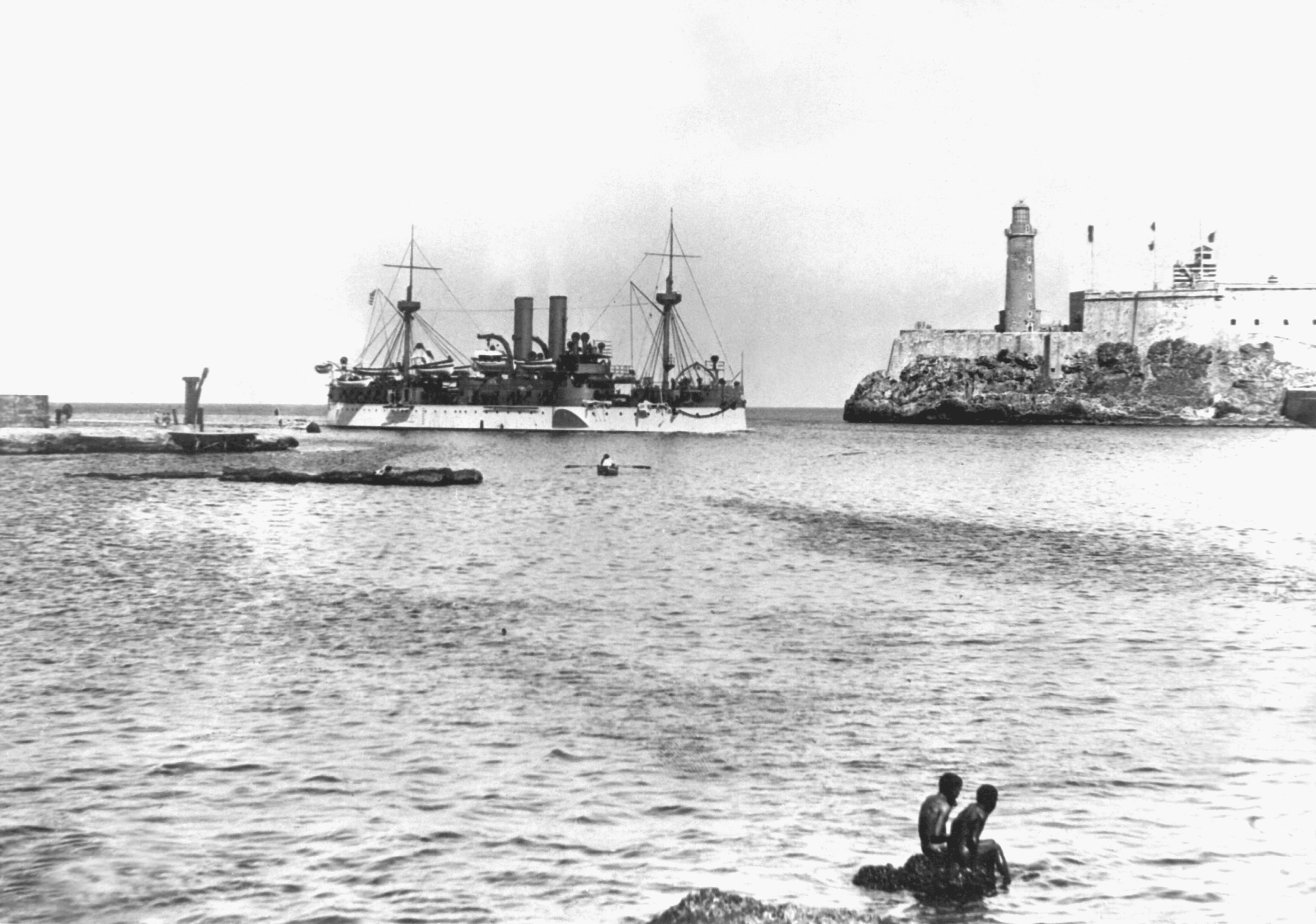 "The Maine entering Havana harbor. January 1898." HD-SN-99-01929. Resized version of the original downloaded from the source listed.